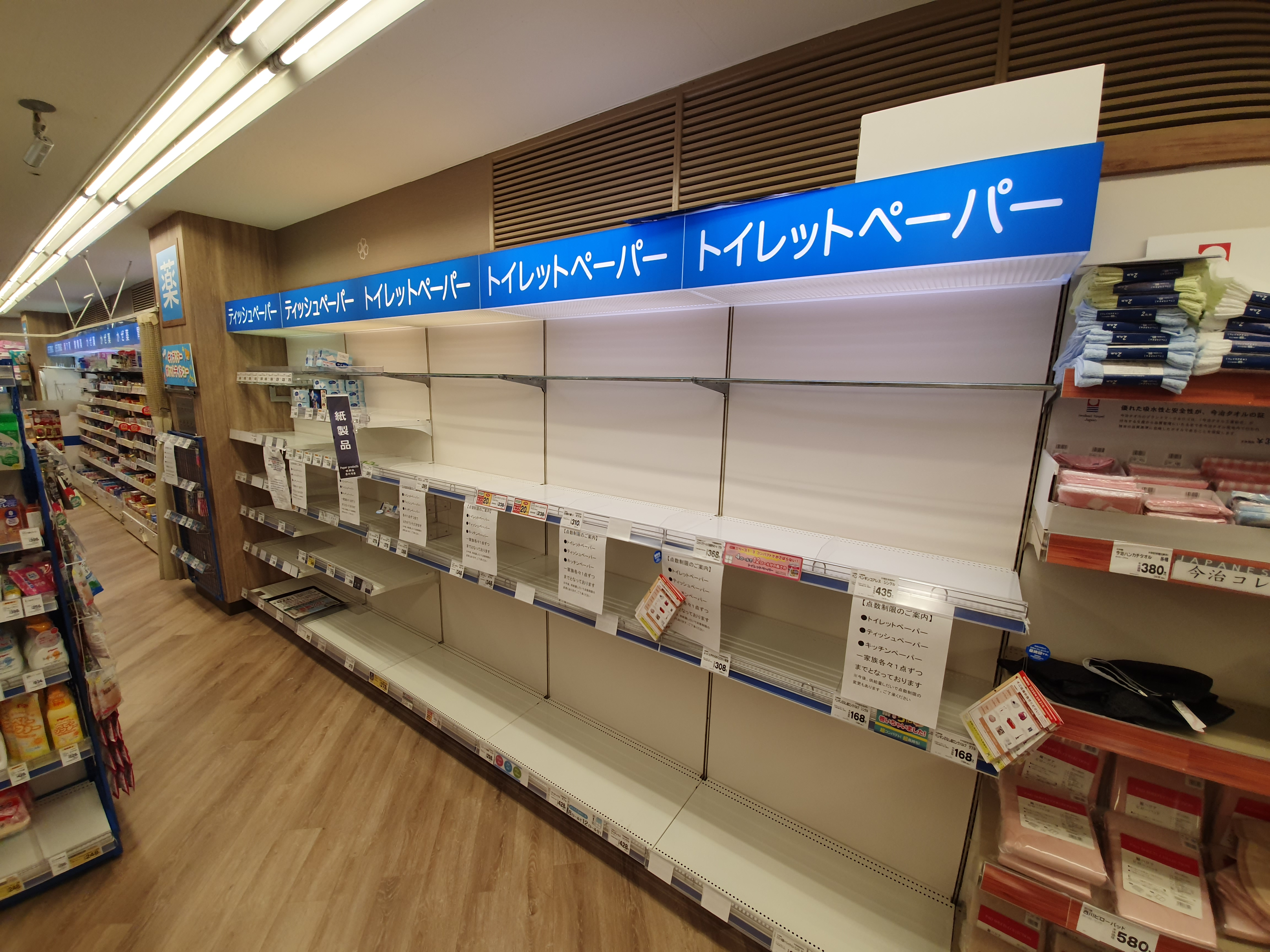 A rumour said paper-based products would disappear due to paper being used for masks